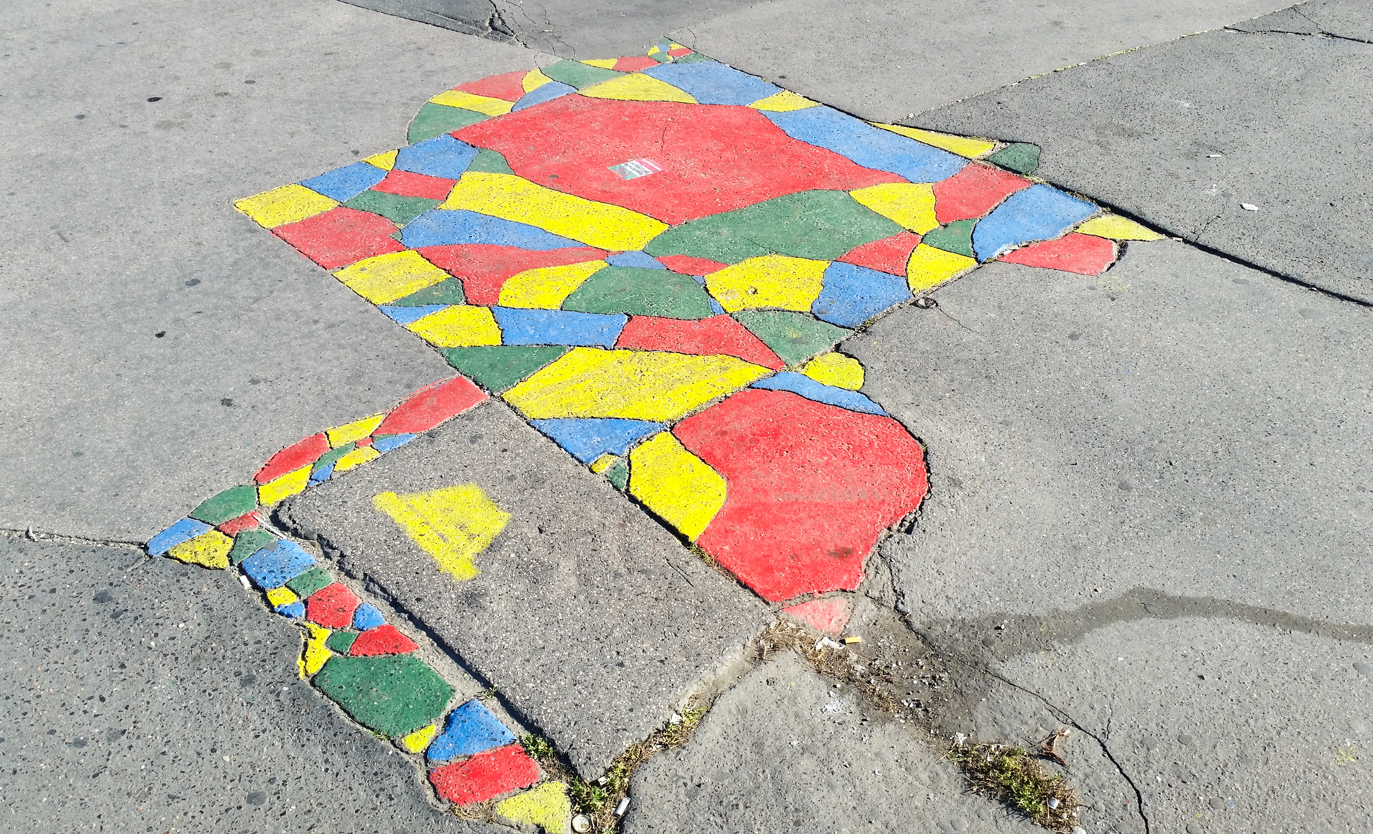 Street art of the Hungarian Two-tailed Dog Party